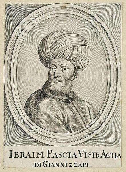 Ibraim Pascia Visir Agha Di Giannizzari" (Ibrahim Pasha vezir, agha of the Janissaries at the siege of Candia in 1667 - this is NOT Pargali Ibrahim Pasha)